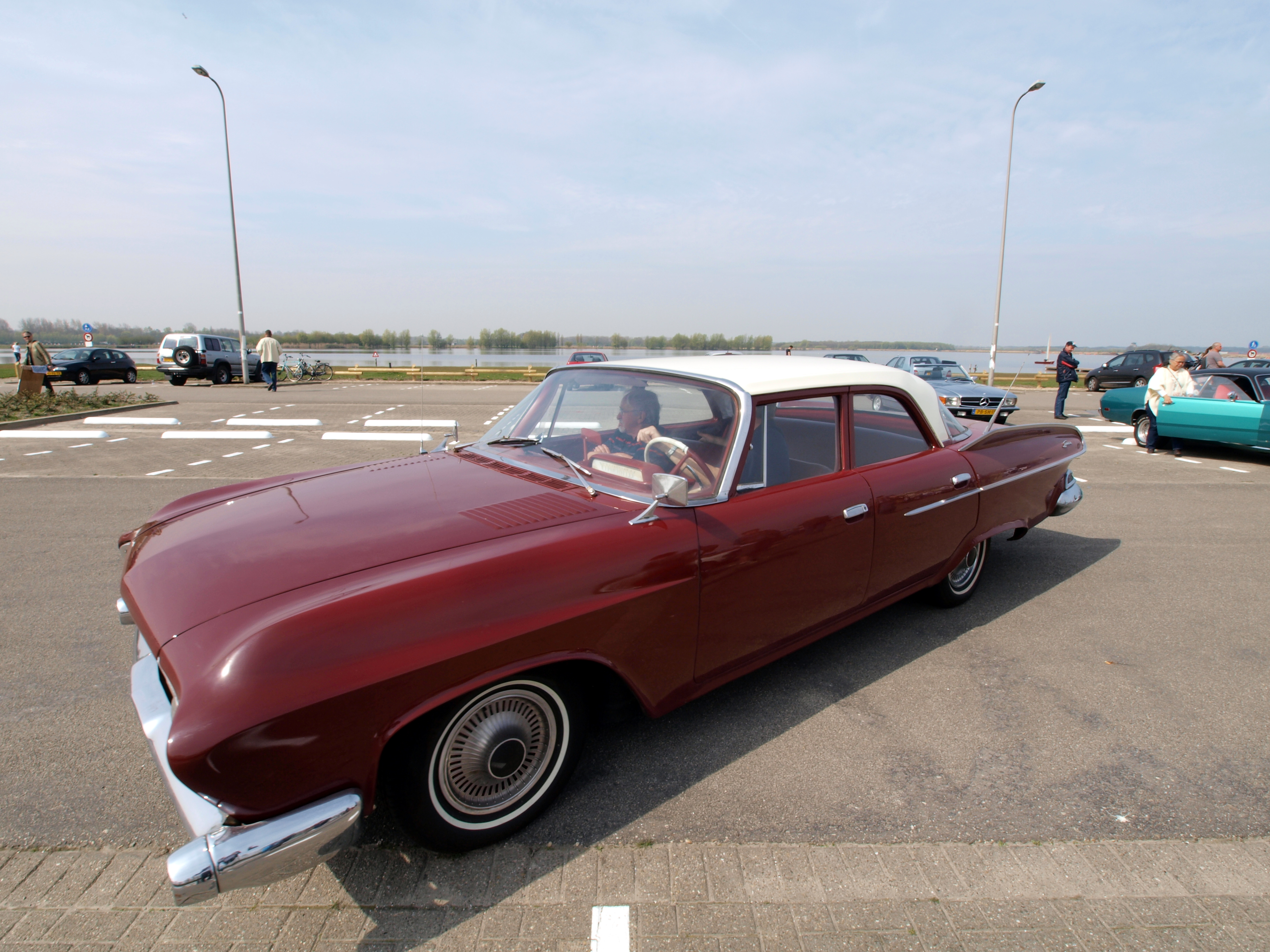 Cars and motorcycles photographed at the Voorschotense Oldtimer Vereniging Show, Valkenburgse meer, The Netherlands.